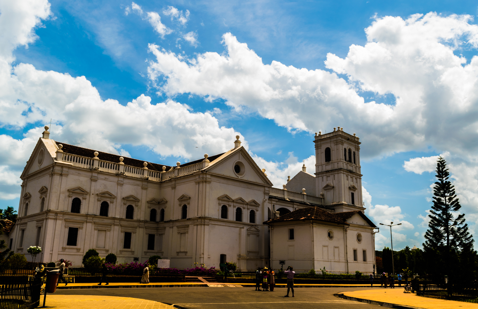 The beautiful 16th century Catherdral has a unique place in the heart of the people living in Goa.The serene clouds just behind this church beautify the area even more and thus this photograph.